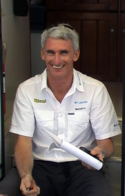 Allan Peiper photograph taken i Victorian Bunyinong